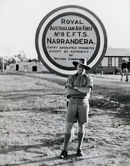 Portrait of 400393 Leading Aircraftman (LAC) Eliot Ralph Barnfather RAAF, standing in front of a signboard for Royal Australian Air Force No 8 Elementary Flying Training School (8 EFTS) Narrandera, NSW. A barrister and solicitor from Geelong, Victoria, prior to enlistment, LAC Barnfather trained initially at 8 EFTS before being shipped to Canada to continue his training under the Empire Air Training Scheme (EATS) at No 2 Air Observers' School (2AOS), Edmonton, Alberta. He received his 'wing' as an air observer on 22 June 1941. Commissioned after his training, Flying Officer (FO) Barnfather was a crew member of 218 Squadron RAF Stirling bomber N6071, radio call sign HA-G, which was shot down near Lyne, Denmark, on 18 May 1942. He was fatally wounded after parachuting from the aircraft. He was 27 years of age.